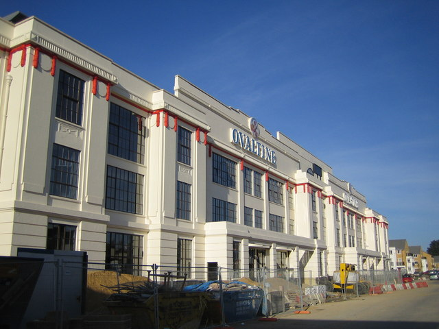 Kings Langley: Former Ovaltine factory This is the listed art deco façade of the former Ovaltine factory, off Station Road in Kings Langley, that was sold for housing development in 2002. The original building was completed between 1924 and 1929, and although the factory behind the façade has been gutted to construct apartment blocks, the façade has been sympathetically restored. The building has always been a landmark on the west side of the West Coast main line railway out of Euston. The site developers are Fairview New Homes Limited and their website for this project is here